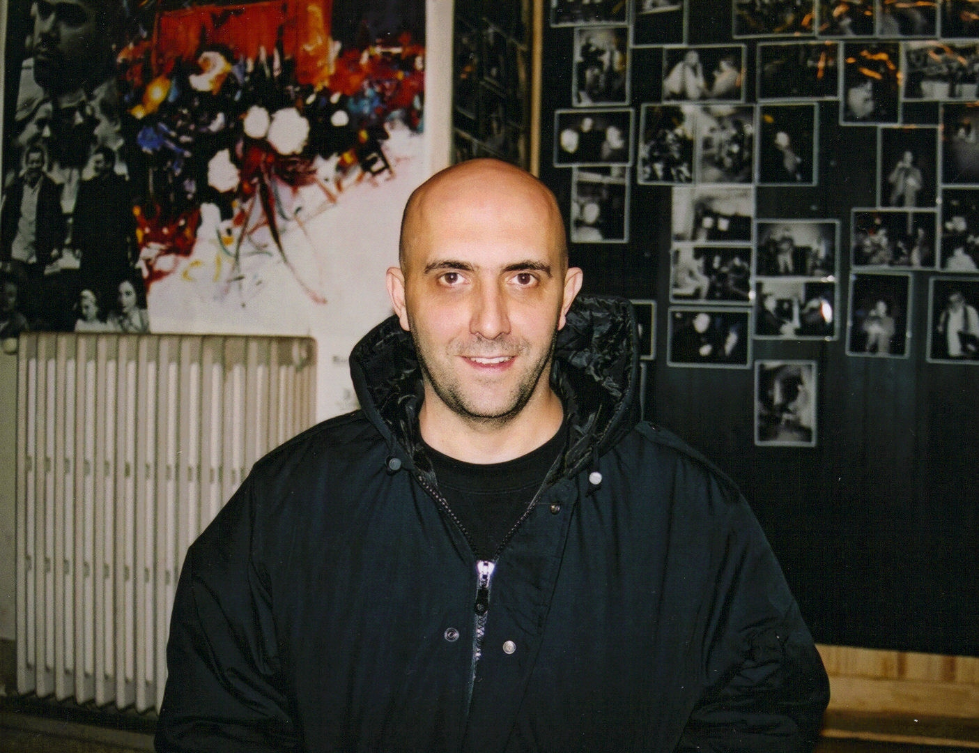 Film director Gaspar Noé